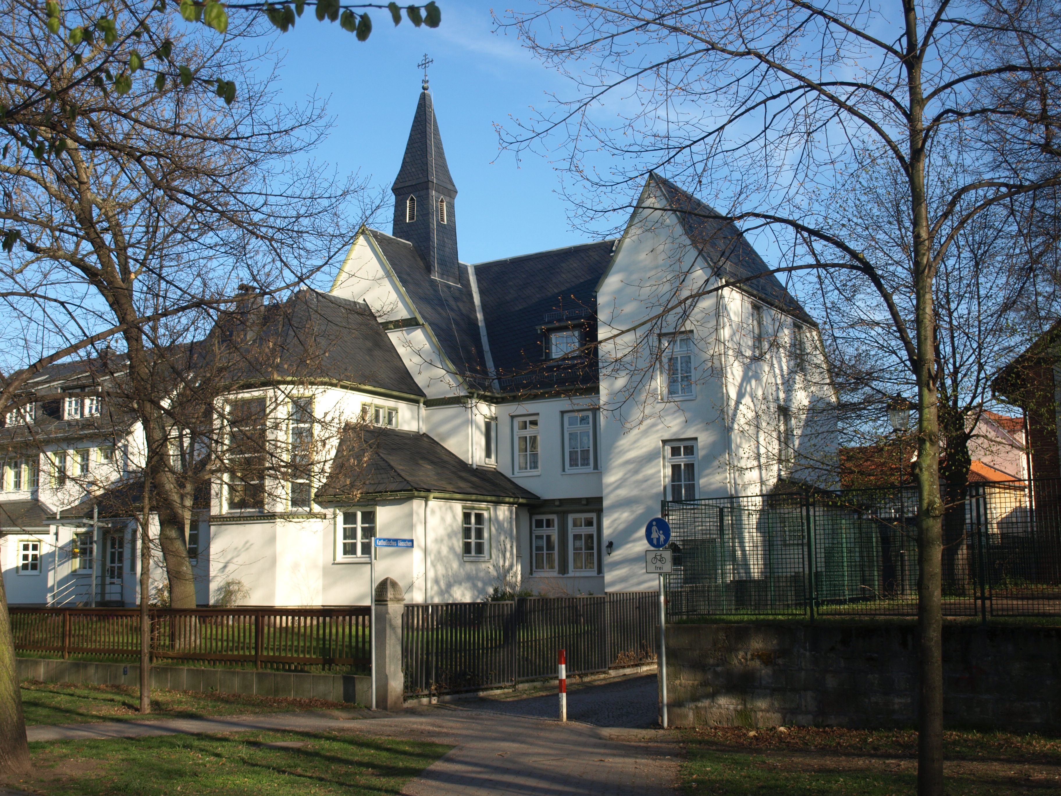 Catholic church St. Elisabeth in Arnstadt, Thuringia, Germany